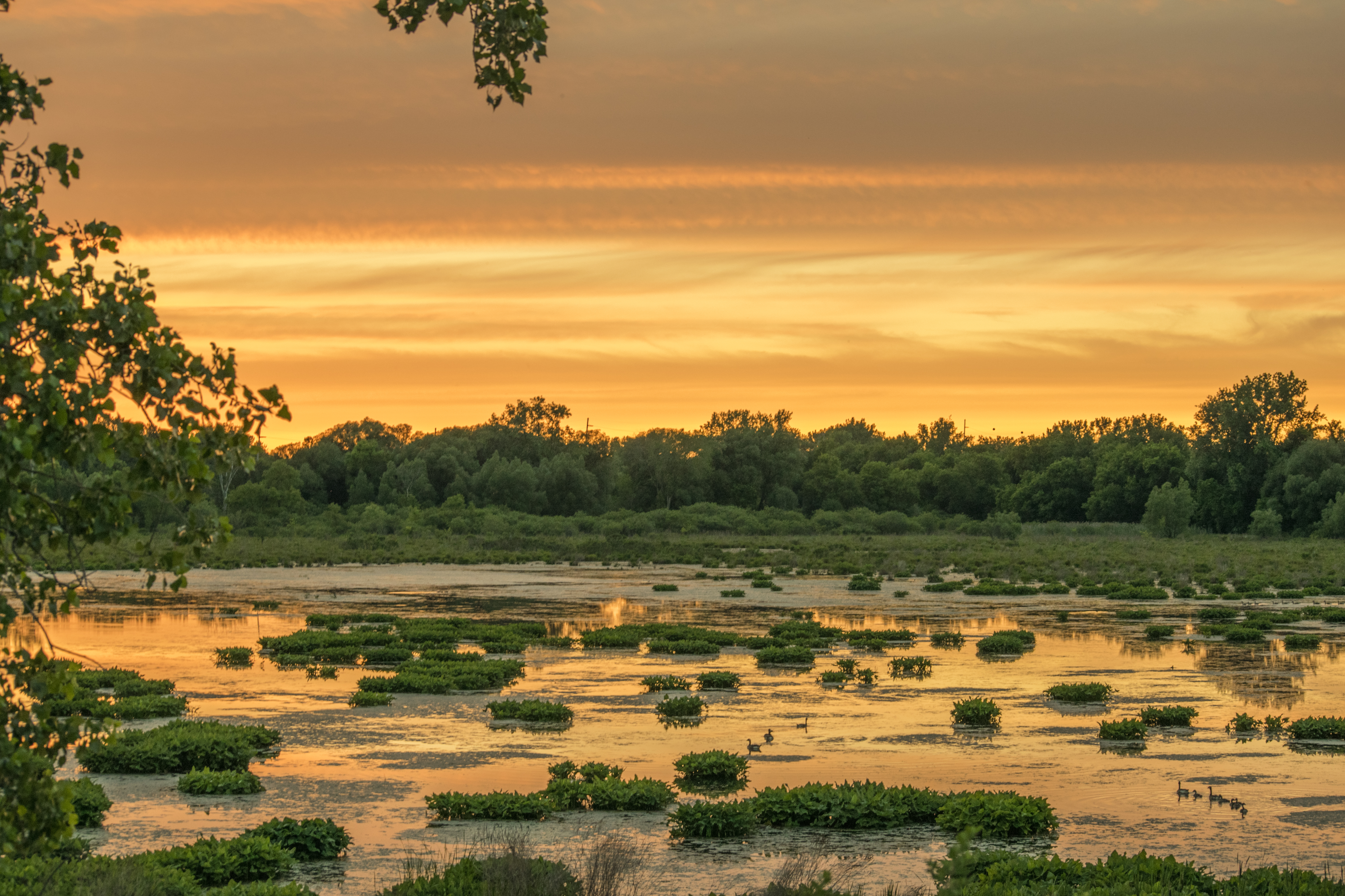 The Utica Marsh at Sunset